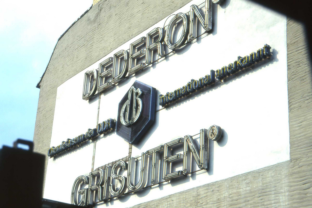 Taken from a coach window, just after crossing the border, en route between Zakopane and Berlin. Dederon = DDRon This wonderfully maintained neon sign was probably deliberately close to the Polish-German border at Guben, formerly WIlhelm-Pieck-Stadt-Guben, to boast to visitors of the famous Nylon product produced there....Chemiefasern der DDR itenational anderkannt.. Dederon was a Nylon 6 polyamide. Also produced in Rudolstadt by a branch of the VEB Chemiefaserwerk Wilhelm Pieck, who was born in Guben when it spanned the Oder. Wilhelm-Pieck-Stadt-Guben was a familiar sign on long-distance express railway carriages of the Deutsche Reichsbahn which terminated there at the border. Grusutin is a polyester fibre still produced today by Märkische Faser in Premniz near Berlin. Chemiefaser Guben, orginally part of the Schwarza combine, was taken over by Hoechst, becoming Hoechst Guben GmbH. Now, the firm is titled Trevira GmbH, a branch of the Bobingen firm.